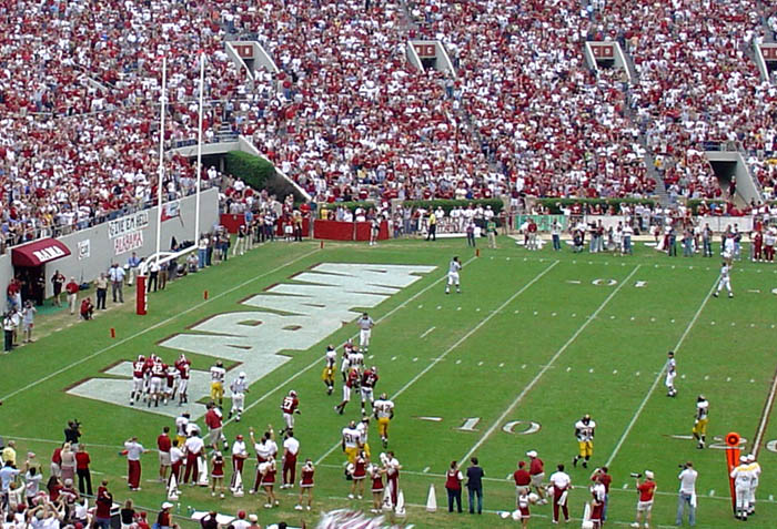 The Alabama Crimson Tide just prior to scoring their final touchdown in the fourth quarter against the Southern Miss Golden Eagles on homecoming at Bryant–Denny Stadium.